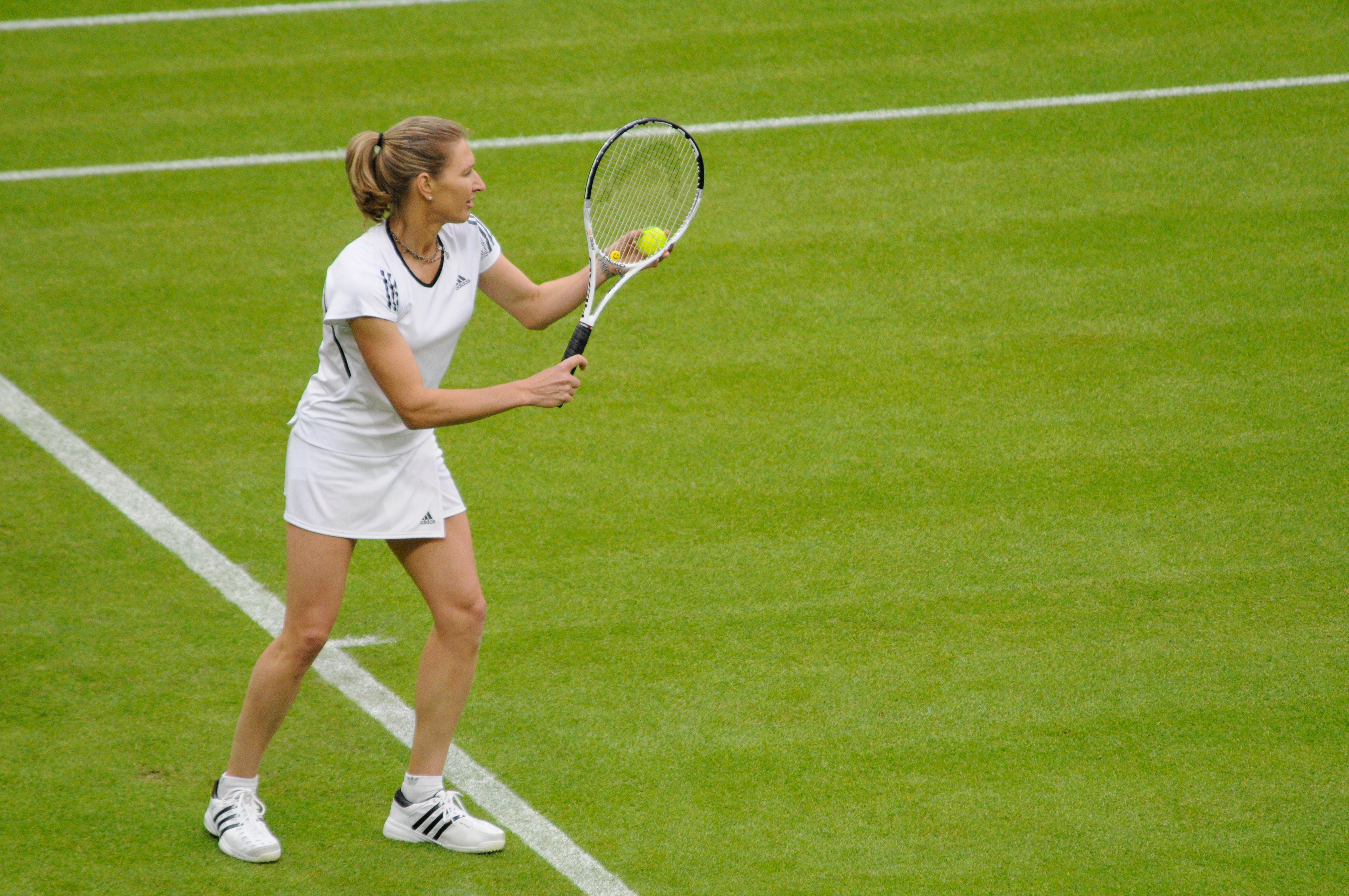 Former World No. 1 German female tennis player Steffi Graf during the special event “A Centre Court Celebration” (event was designed to test a new roof and air management system with live tennis in front of a capacity crowd of 15,000 – Andre Agassi and Steffi Graf played vs. Tim Henman and Kim Clijsters)